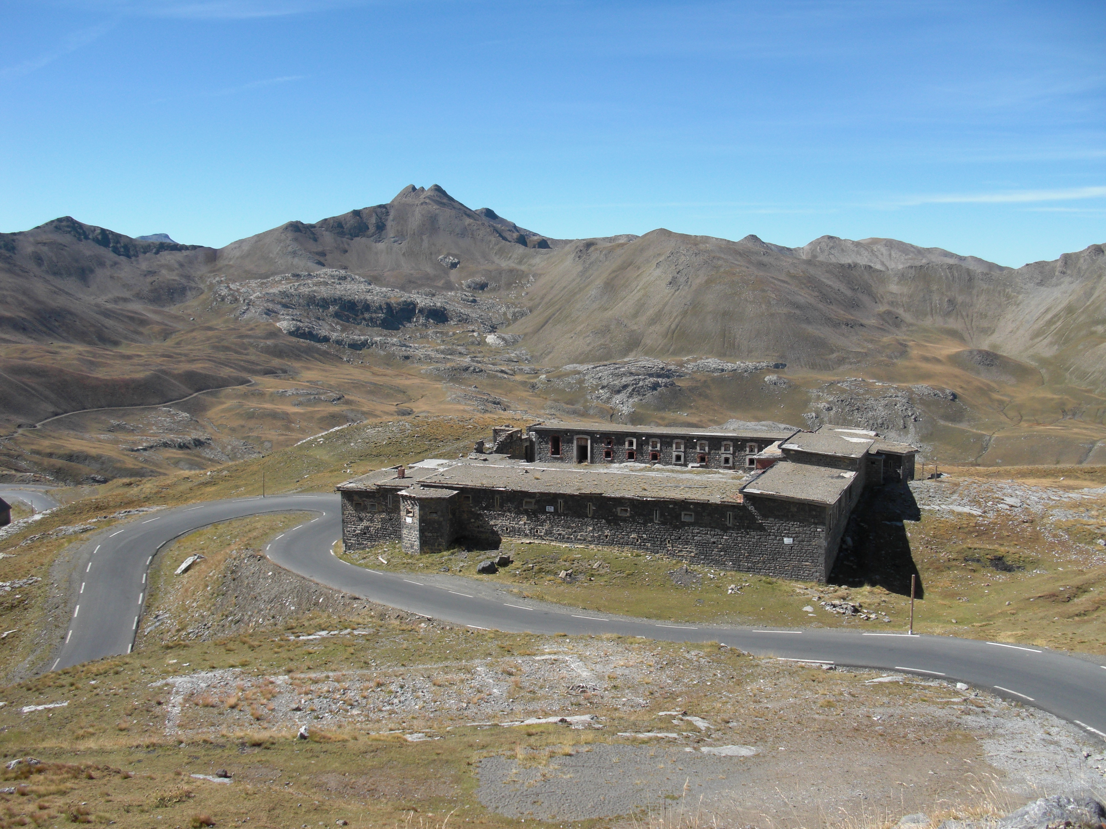 Caserne de Restefond on the northern side of the Pass of the Bonette